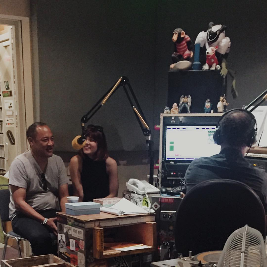 Velvet Einstein chats with Got A Girl (Dan "The Automator" Nakamura and Mary Elizabeth Winstead)